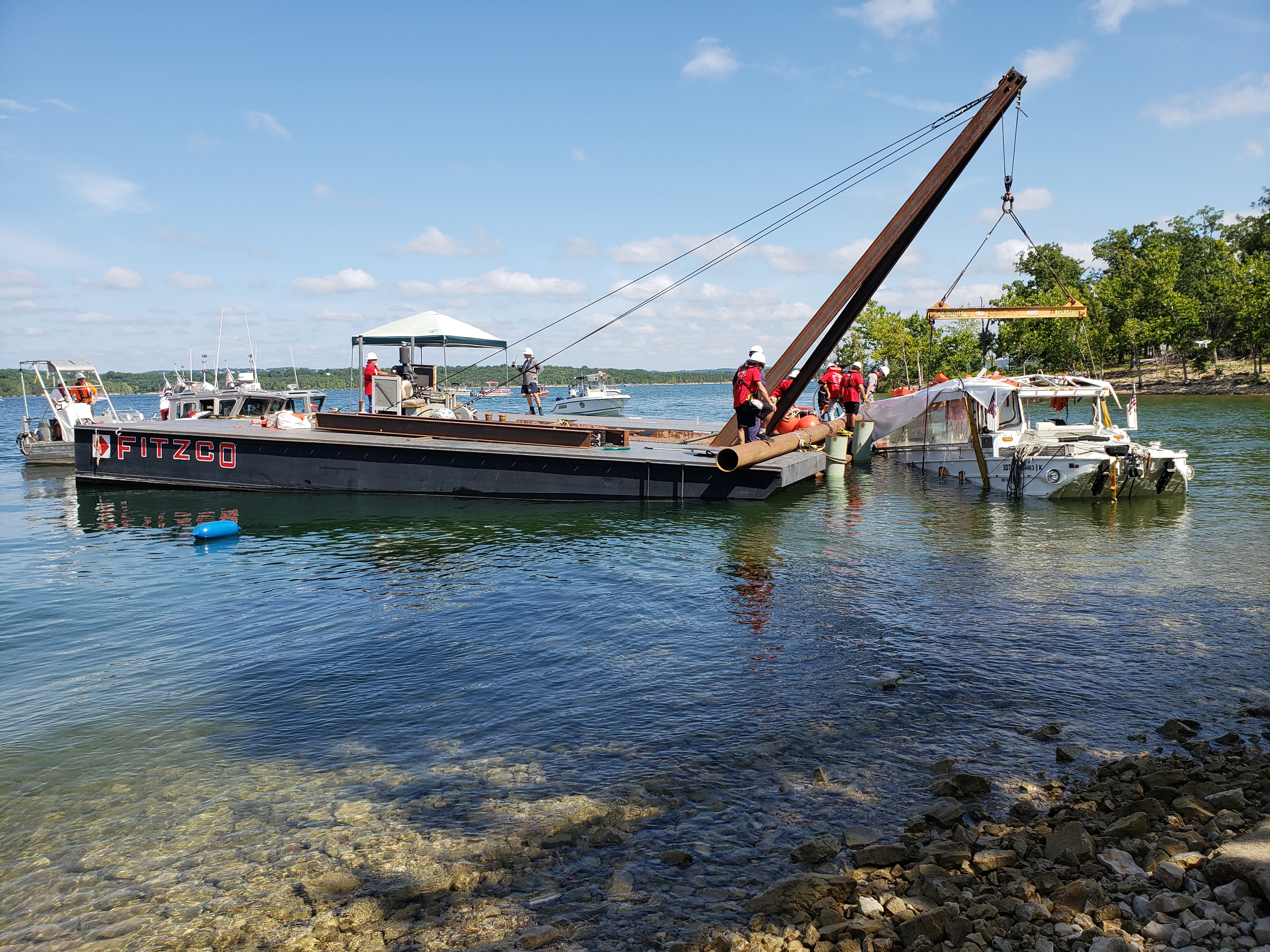 The Coast Guard oversees the removal of Stretch Duck 7 from Table Rock Lake in Branson, Missouri, July 23, 2018. Missouri State Highway Patrol divers rigged the vessel, then a barge crane lifted it to the surface before it was towed to shore and loaded onto a flatbed trailer for transport to a secure facility. U.S. Coast Guard photo by Petty Officer 3rd Class Lora Ratliff